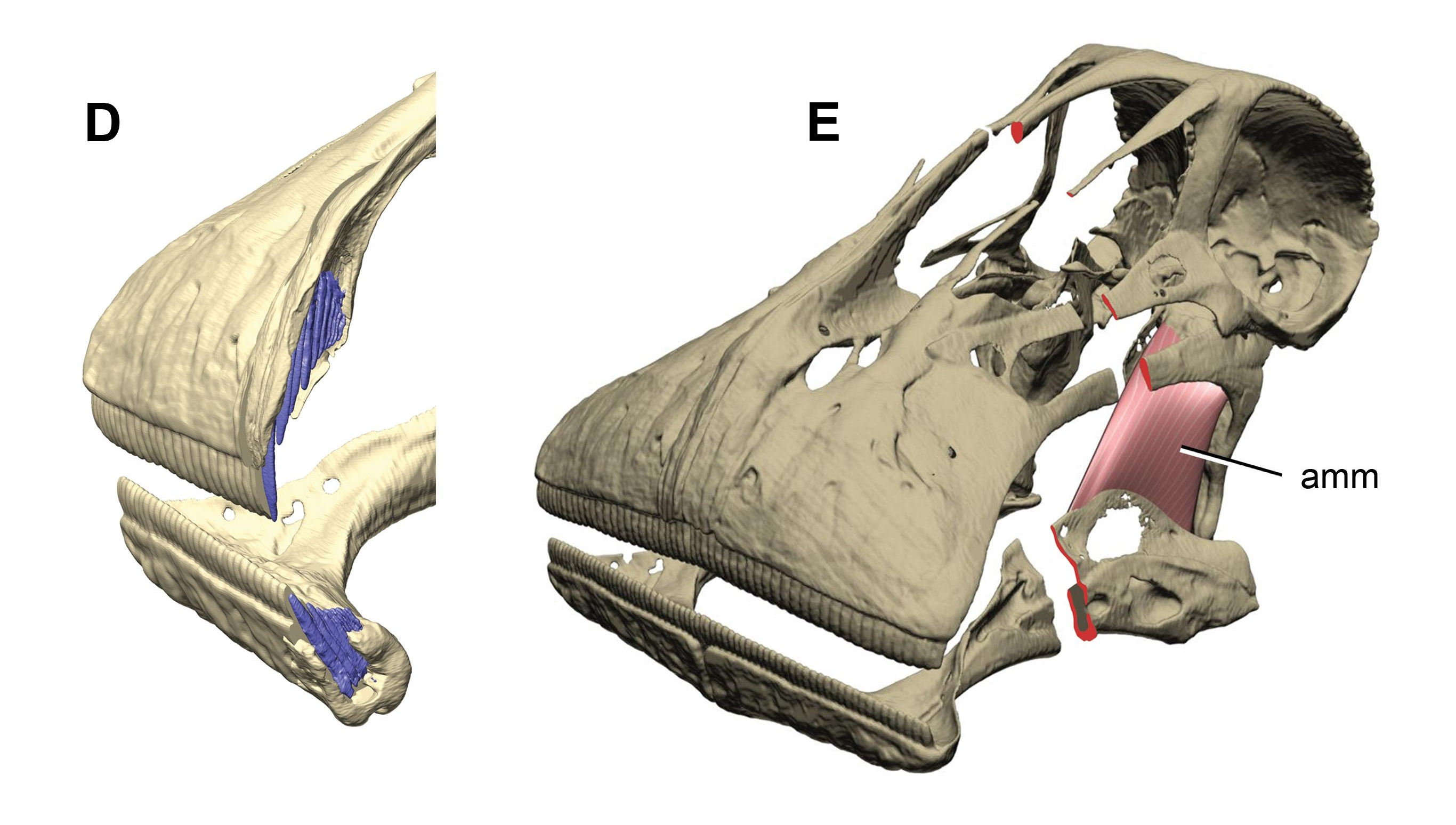 Dental battery of the Nigersaurus highlighted (D)-Premaxillary and dentary tooth series (blue) reconstructed from µCT scans. (E)-Skull reconstruction in anterolateral and dorsal view cut at mid length between muzzle and occipital units (cross-section in red) with the adductor mandibulae muscle shown between the quadrate and surangular.